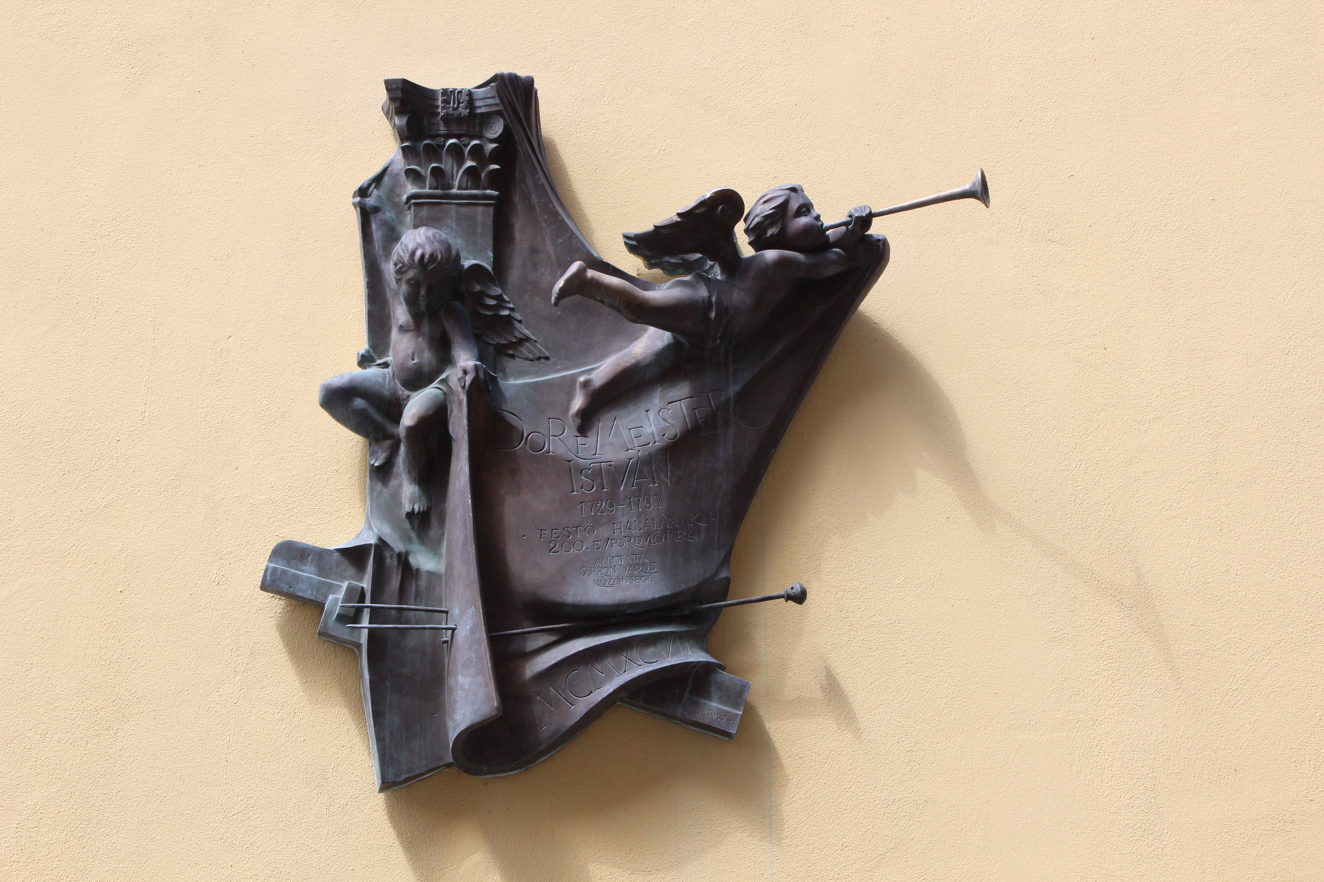 Relief to memory of István Dorfmeister (Sopron, Hungary). Sculptor: Tamás Soltra E., 1997.